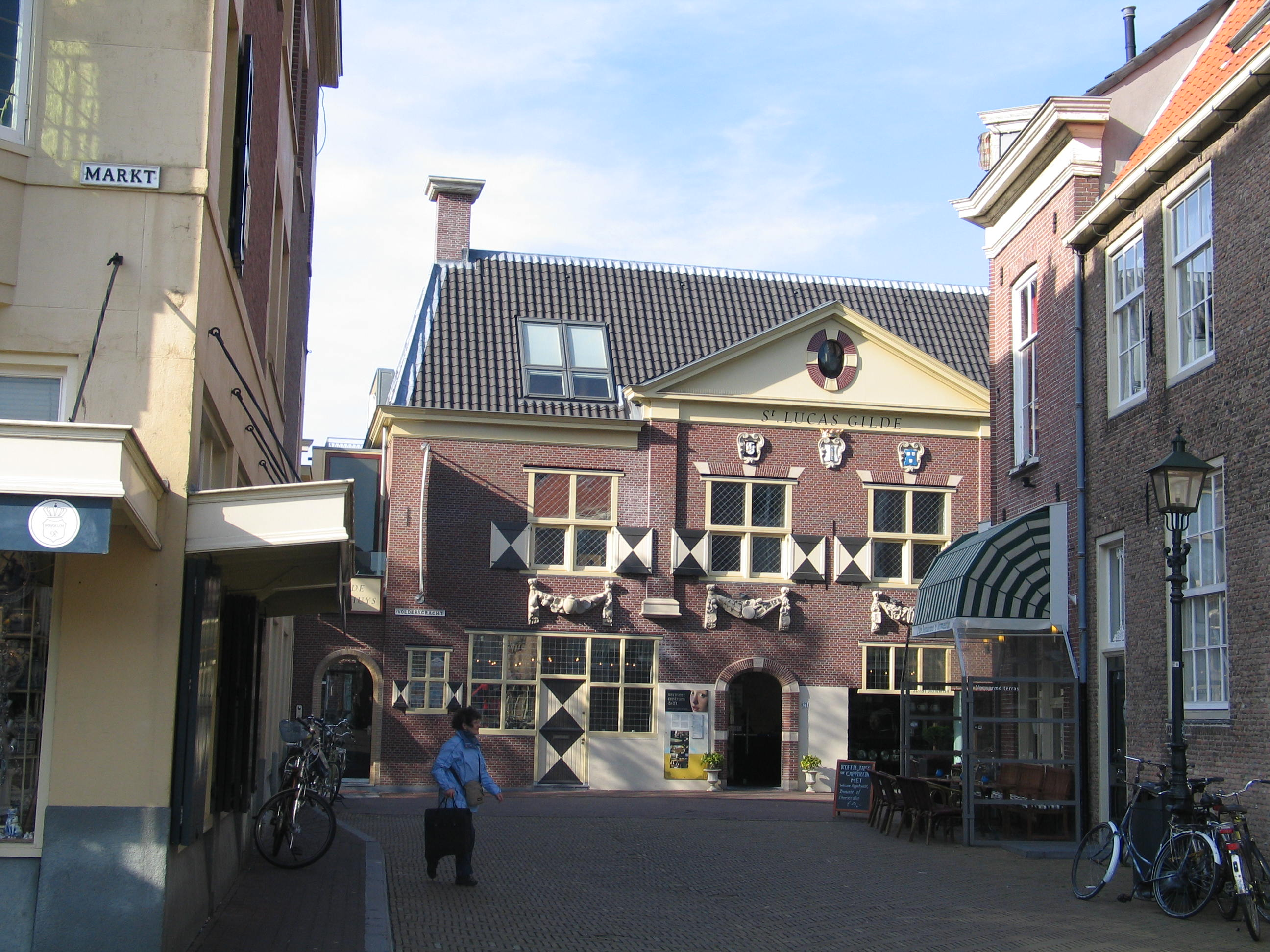 Guild of Saint Luke in Delft; (now in use as the (painter) Vermeer museum)